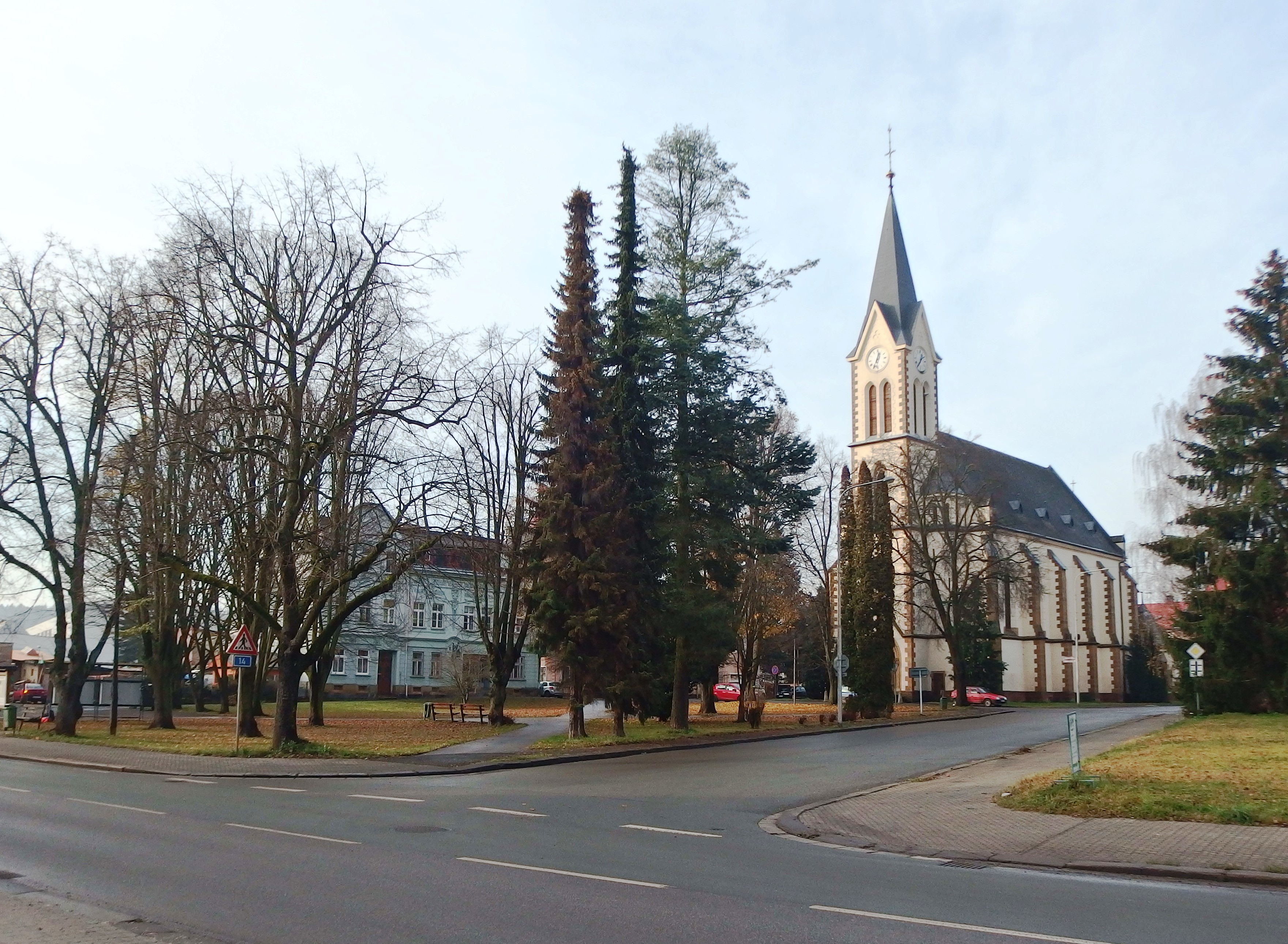 Trutnov, Czech Republic, part Poříčí.